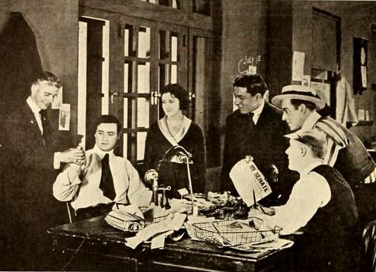 Still from the American film The Woman Under Cover (1919) with Fritzi Brunette, on page 1086 of the August 2, 1919 Motion Picture News.